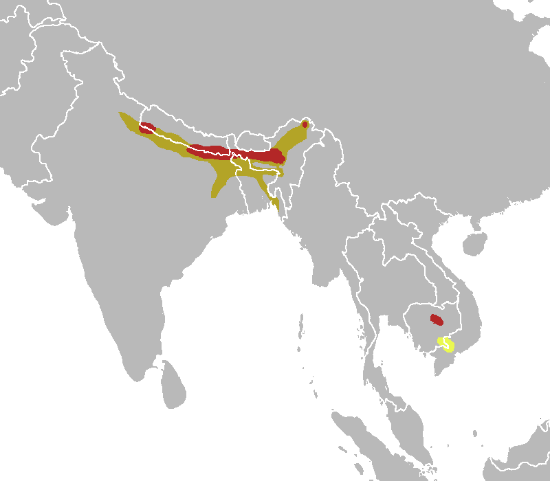 Bengal florican range map. Red: extant (resident), gold: possibly extinct, light yellow: extant (non breeding).